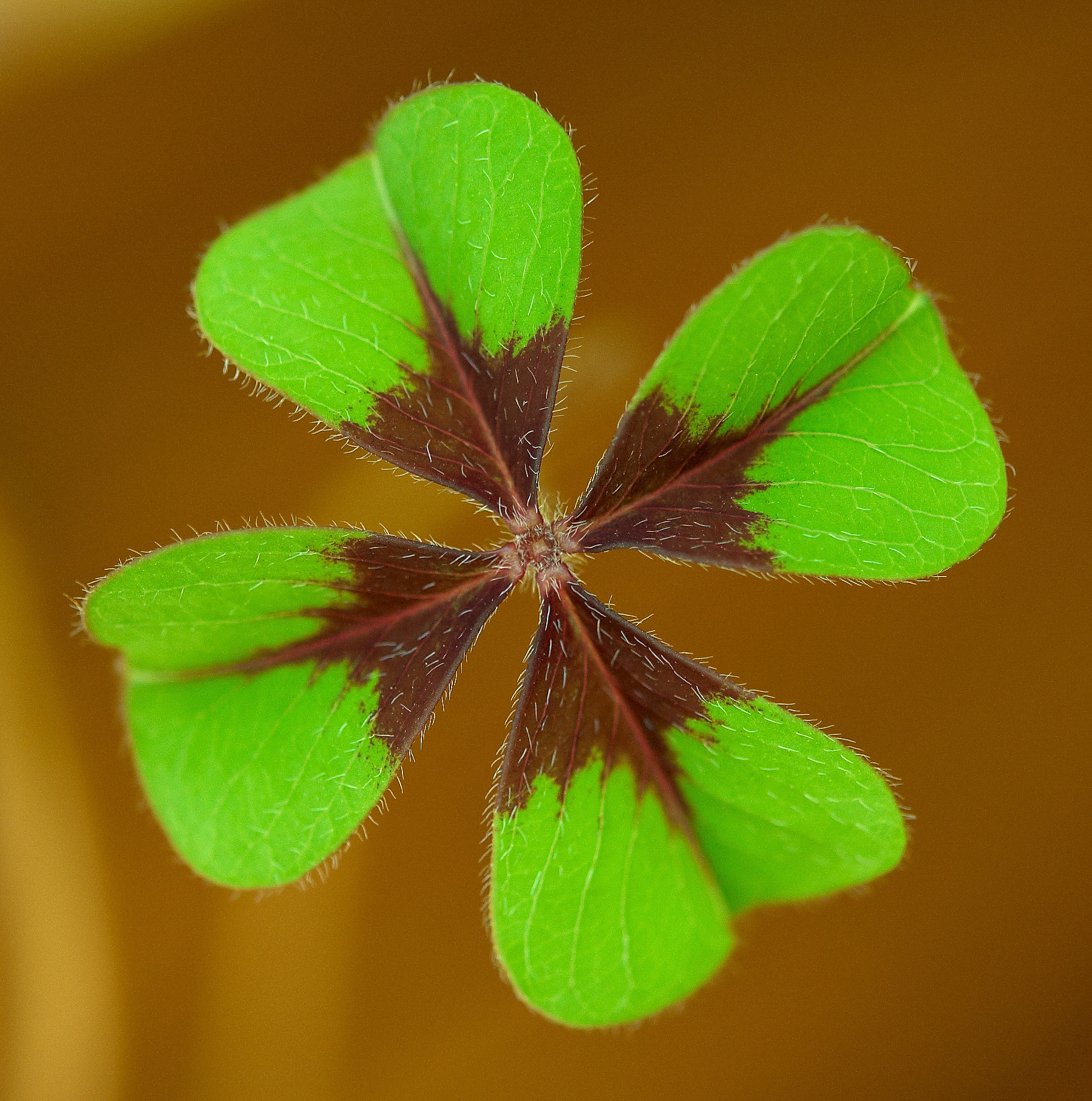 Oxalis deppei 'Iron Cross' / Oxalis tetraphylla